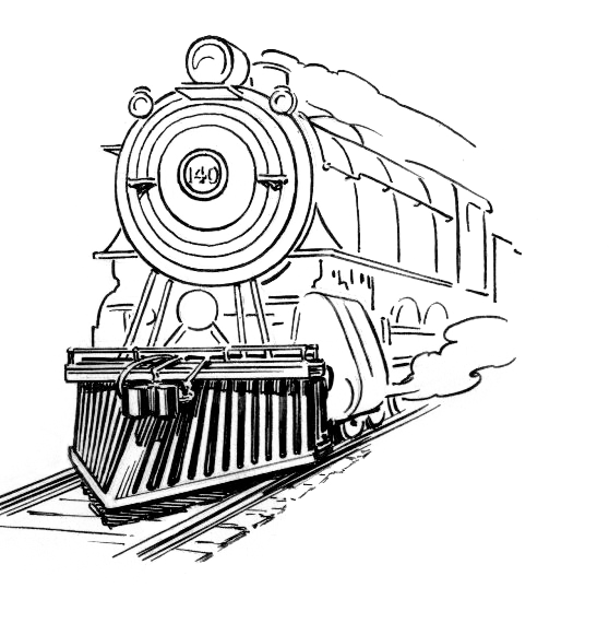 b/w line drawing of a cowcatcher